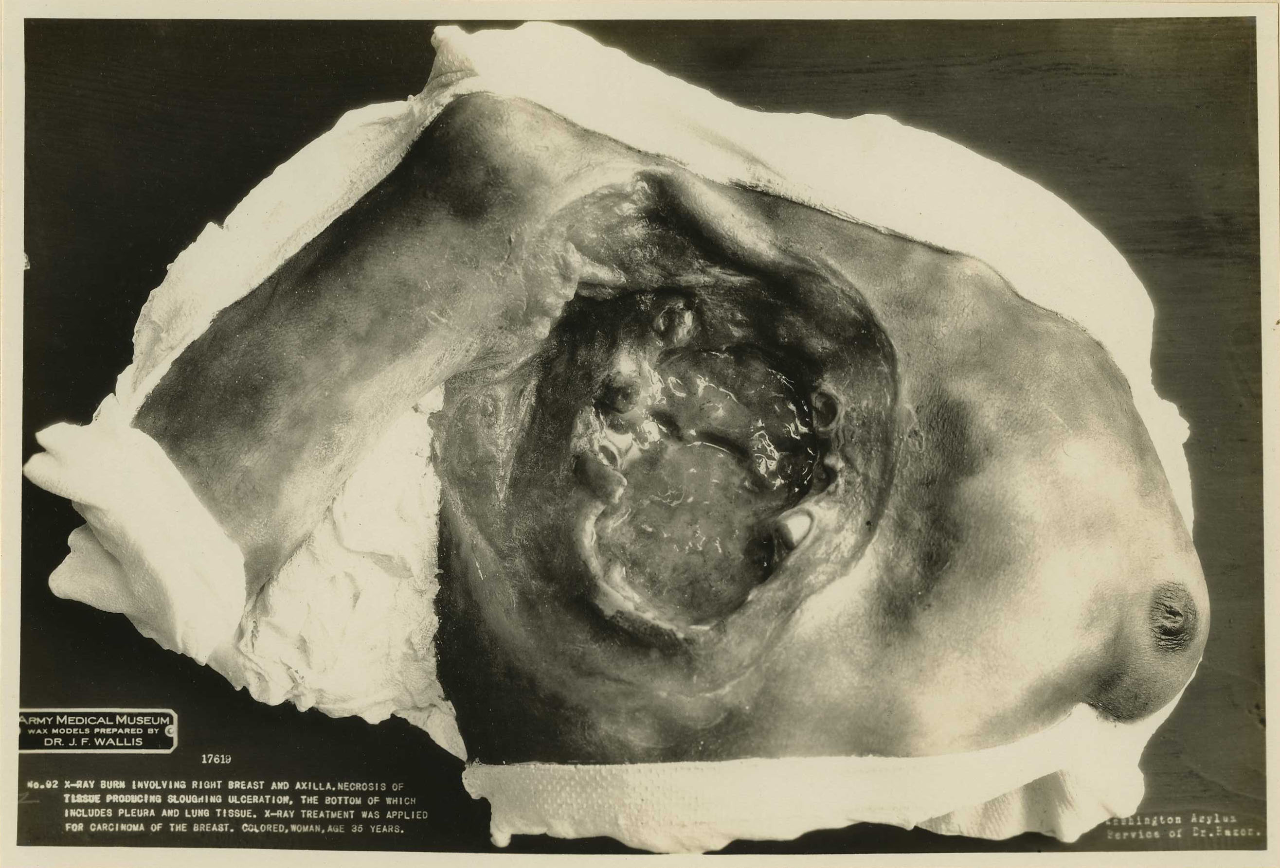 Breast. Burn, X-Ray. Wax model. No. 92 X-ray burn involving right breast and axilla. Necrosis of tissue producing sloughing ulceration, the bottom of which includes pleura and lung tissue. X-ray treatment was applied for carcinoma of the breast. Colored, woman, age 35 years. Army Medical Museum, wax model prepared by Dr. J.F. Wallis. Cancer. Radiation burn. (Ref Otis Historical Archives of “National Museum of Health & Medicine” : OTIS Archive 1 : Reeve 36721)